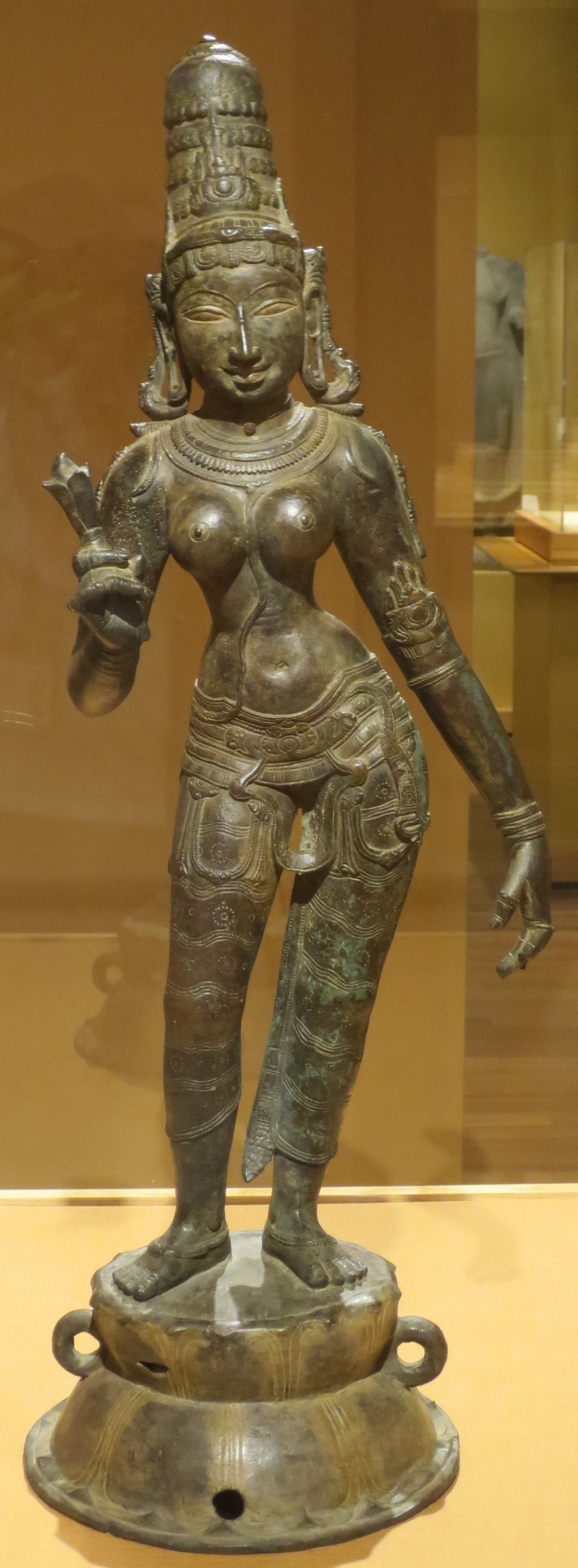 Pārvatī, India, Chola dynasty, 13th century, bronze, Honolulu Museum of Art, accession 4313.1